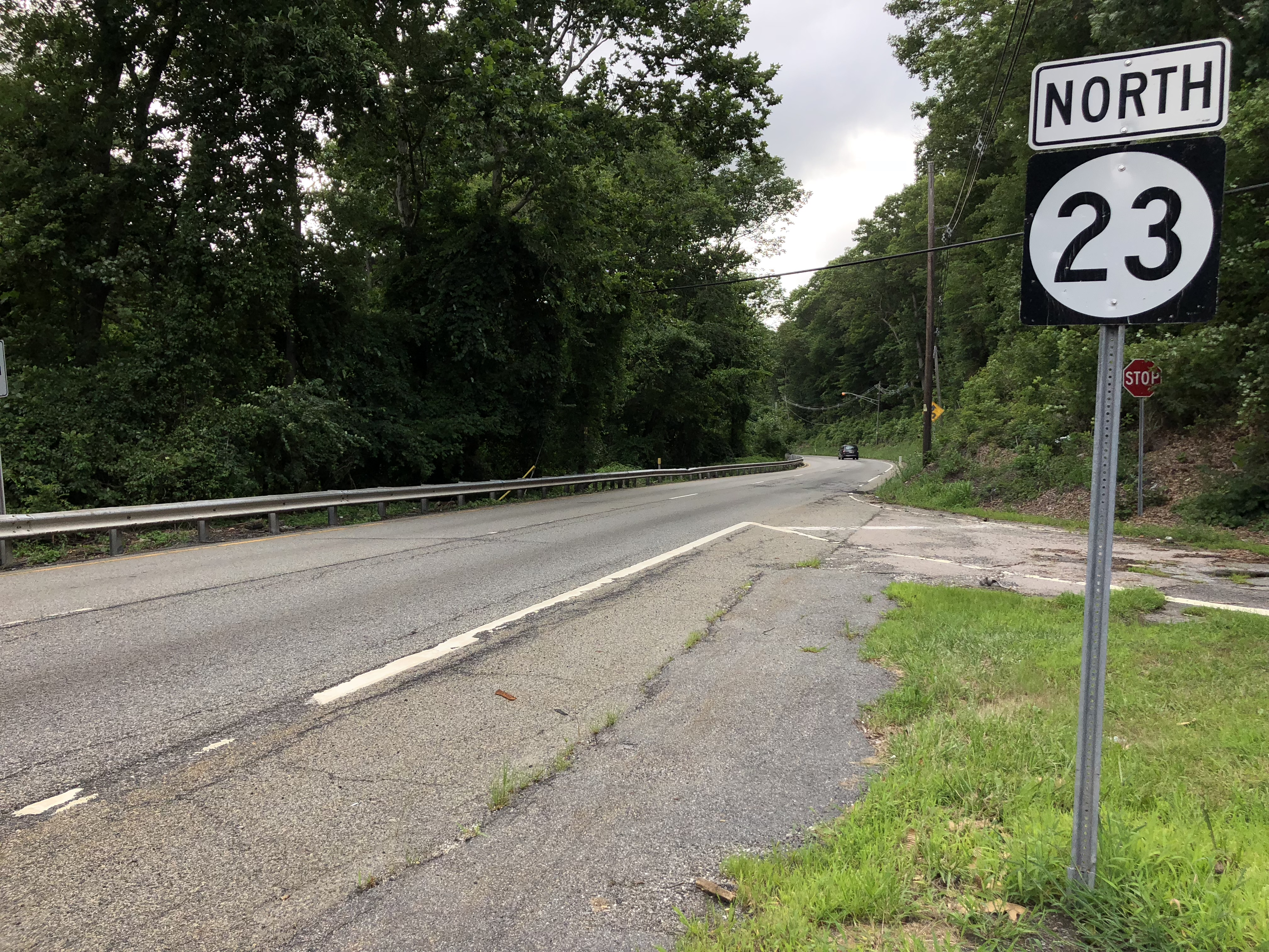 View north along New Jersey State Route 23 at New City Road in West Milford Township, Passaic County, New Jersey